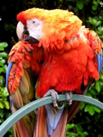 Sample image rendered with the MSX2+ YJK color palette